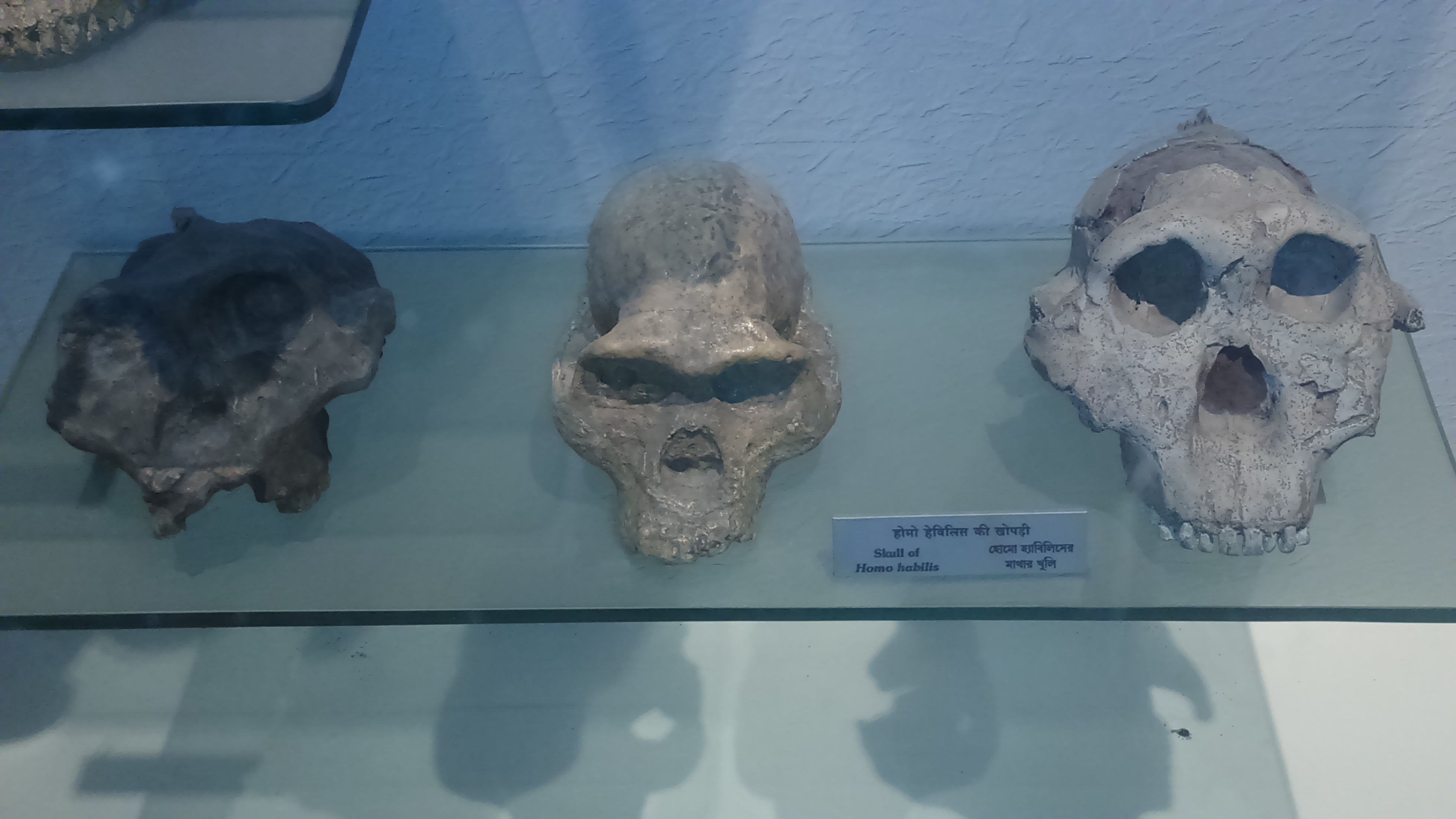 Center: Skull of Homo Habilis. Right skull OH 5 (Paranthropus boisei). Indian Museum